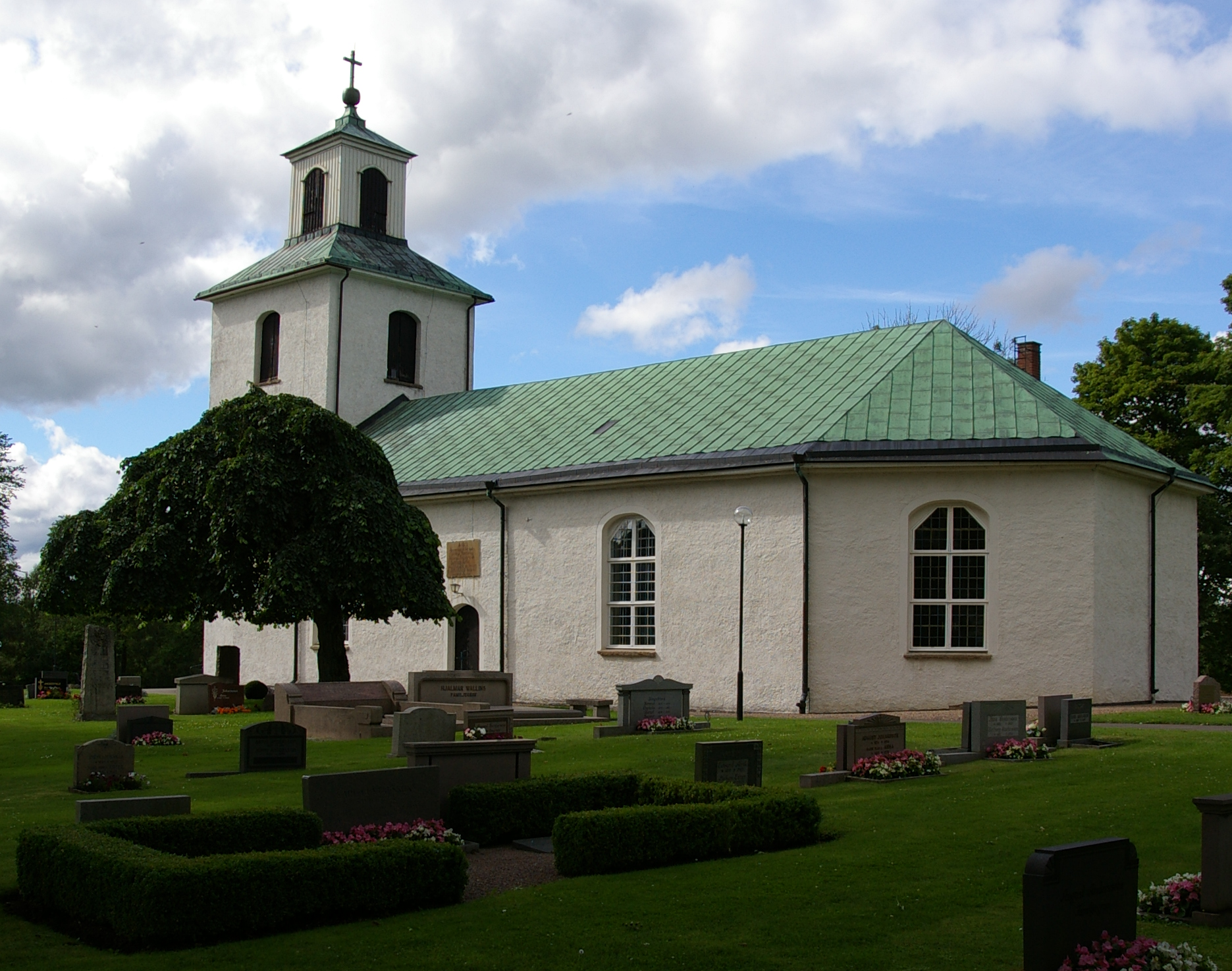 Stenstorps kyrka (Swedish:Church of Stenstorp) in Västergötland, Sweden.